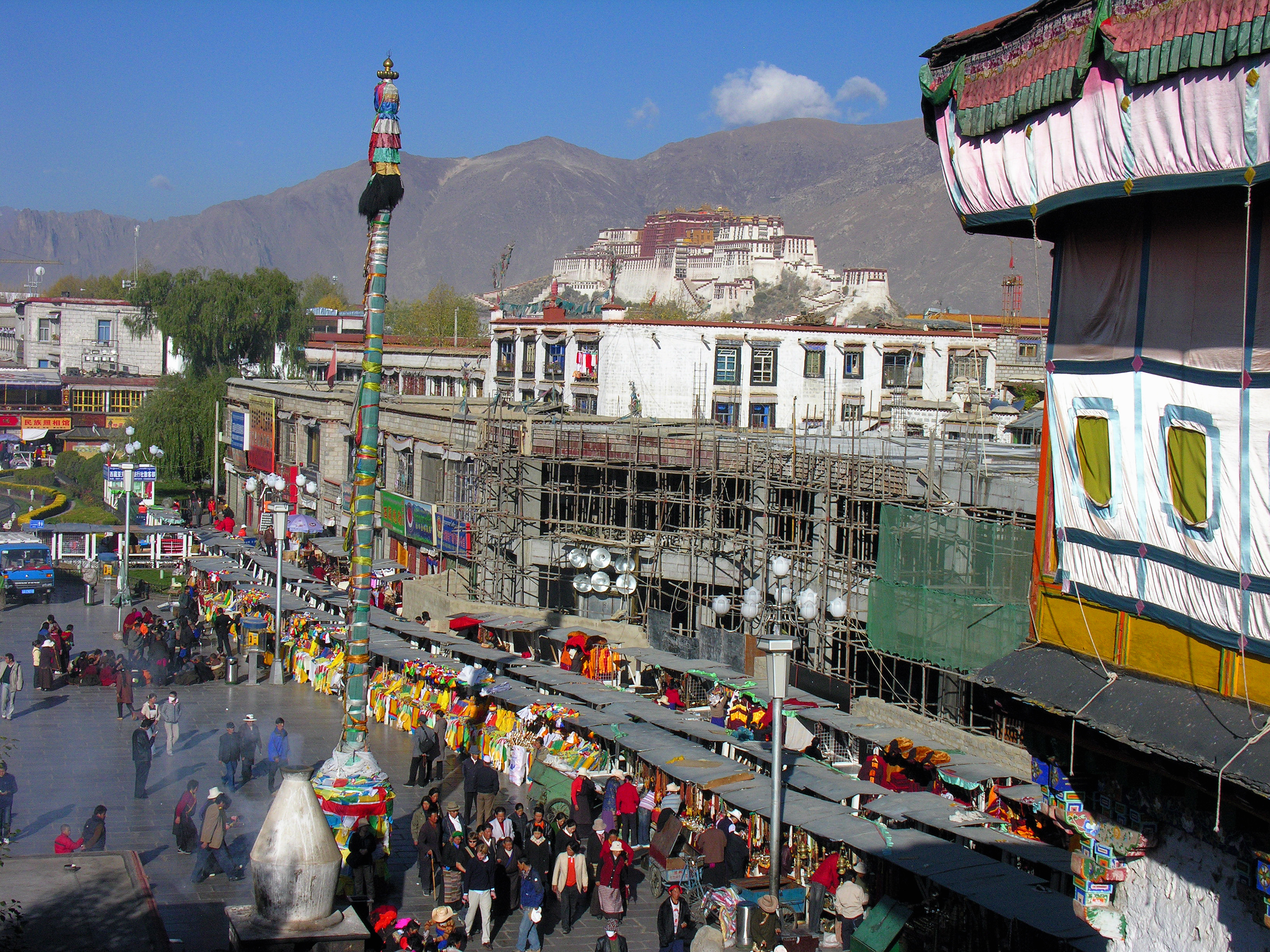 Looking down from the monastery onto Barkhor Street that has many street merchants. In the background is the Potala Palace.